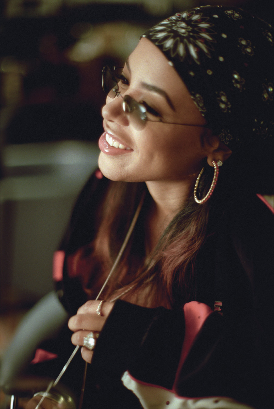 singer Aaliyah in Berlin/Germany may 2000